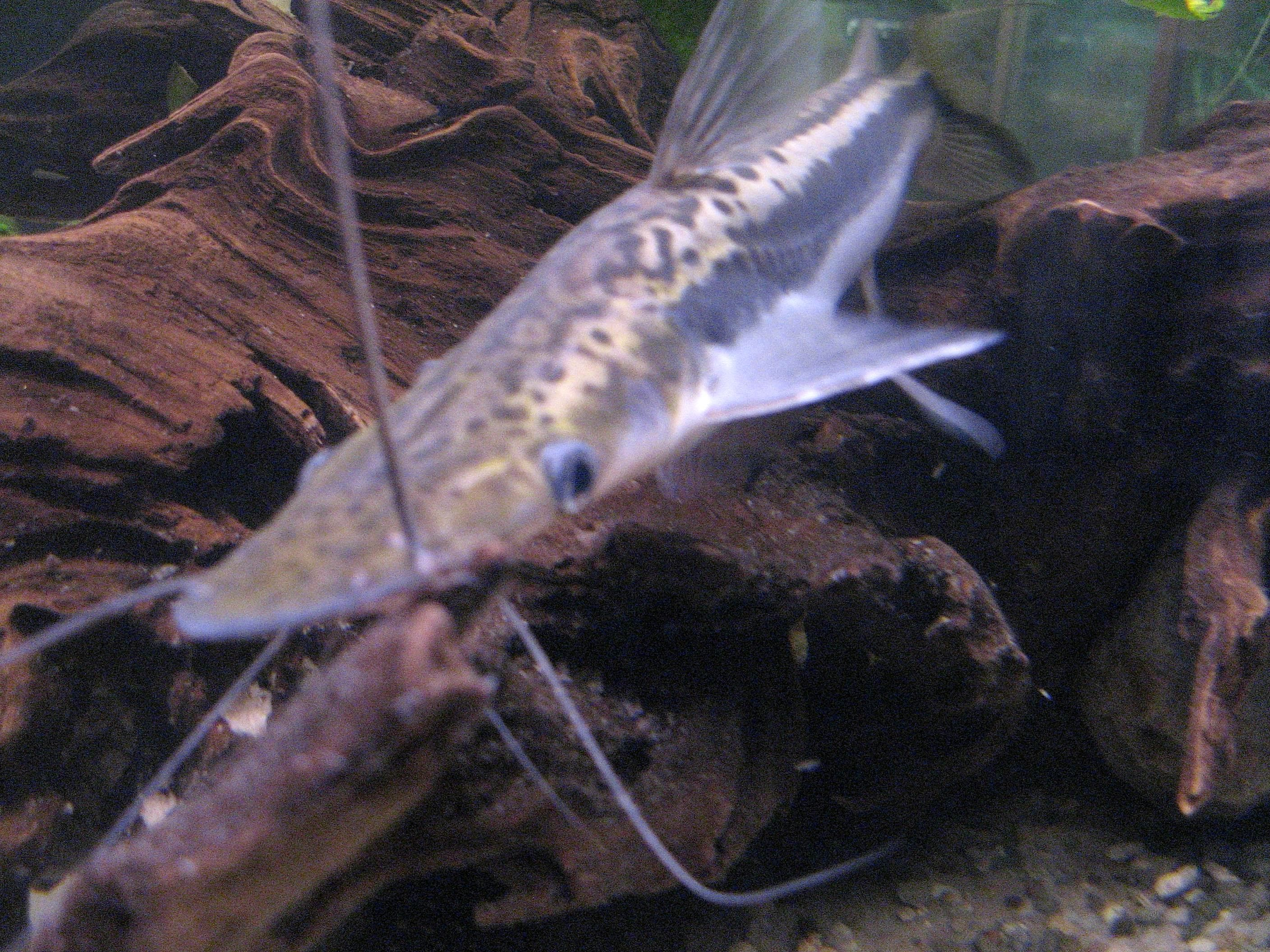 Image title: Sheatfish Image from Public domain images website